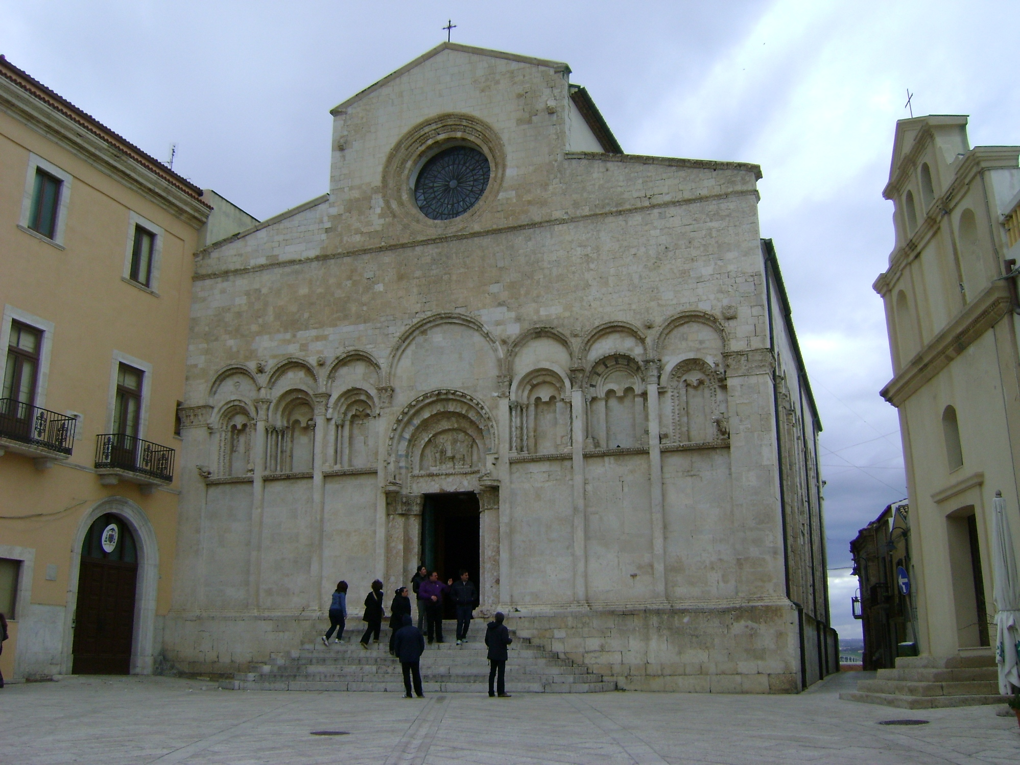 The Cathedral of Saint Mary of the Purification in Termoli, Molise